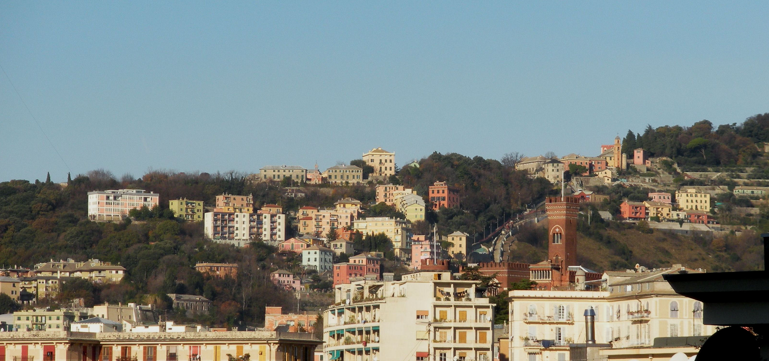 Genoa (Italy), view of Granarolo from Castelletto esplanade